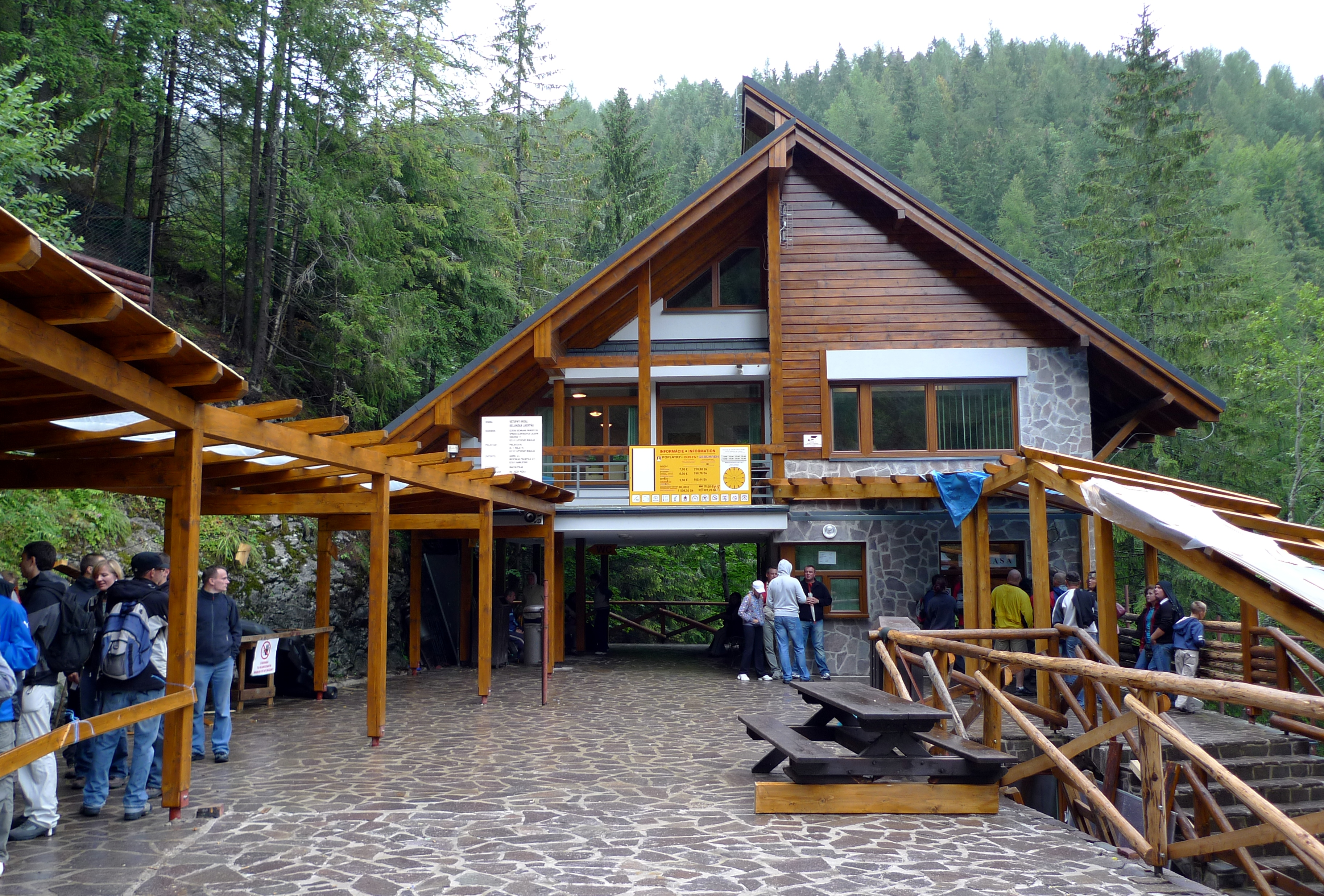 Bielanska cave in Slovakia - ticket office